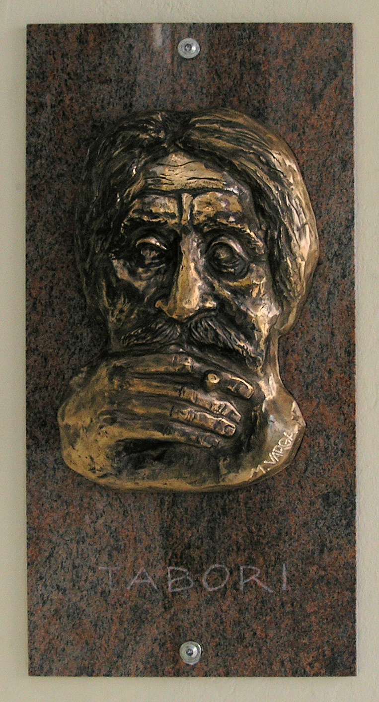 Memorial plaque, George Tabori, Schiffbauerdamm 6, Berlin-Mitte, Germany Koordinate:52°31′18″N 13°23′10″E / 52.52167°N 13.38611°E